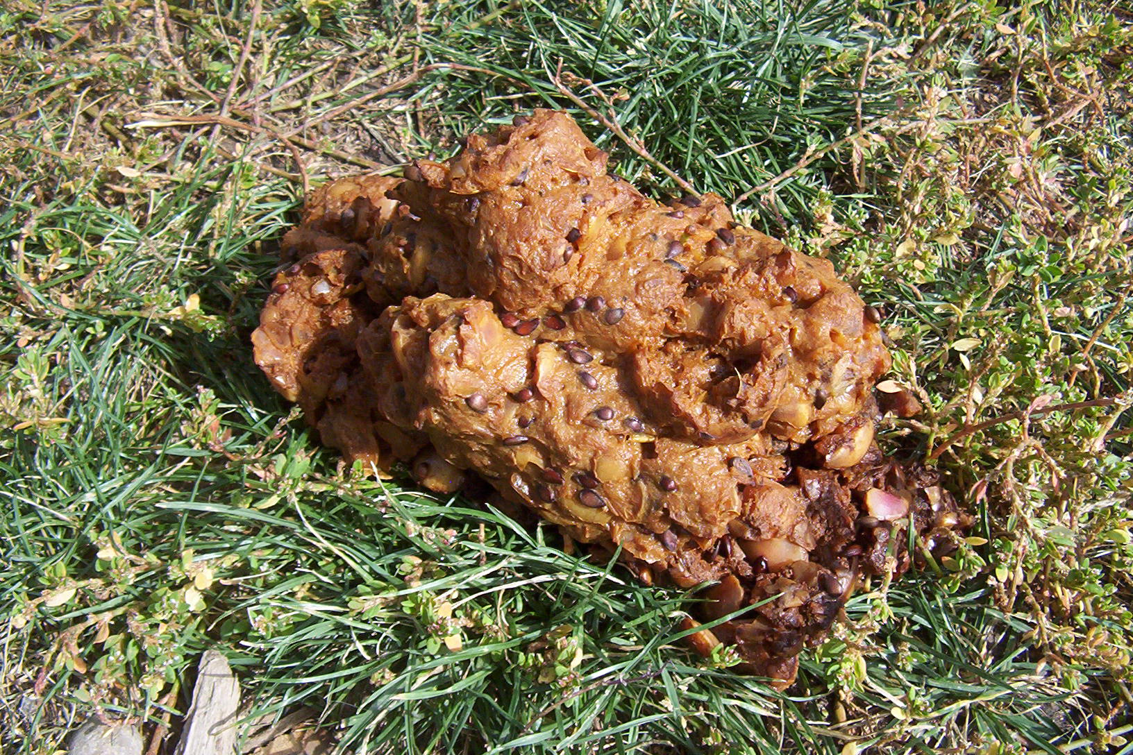 Fresh American Black Bear scat in Little Pearl Park in Crestone, Colorado showing recent consumption of apples, September 22, 2010.